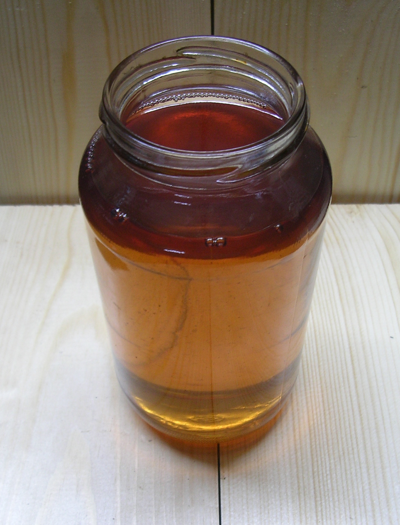 Loco diesel in mason jar